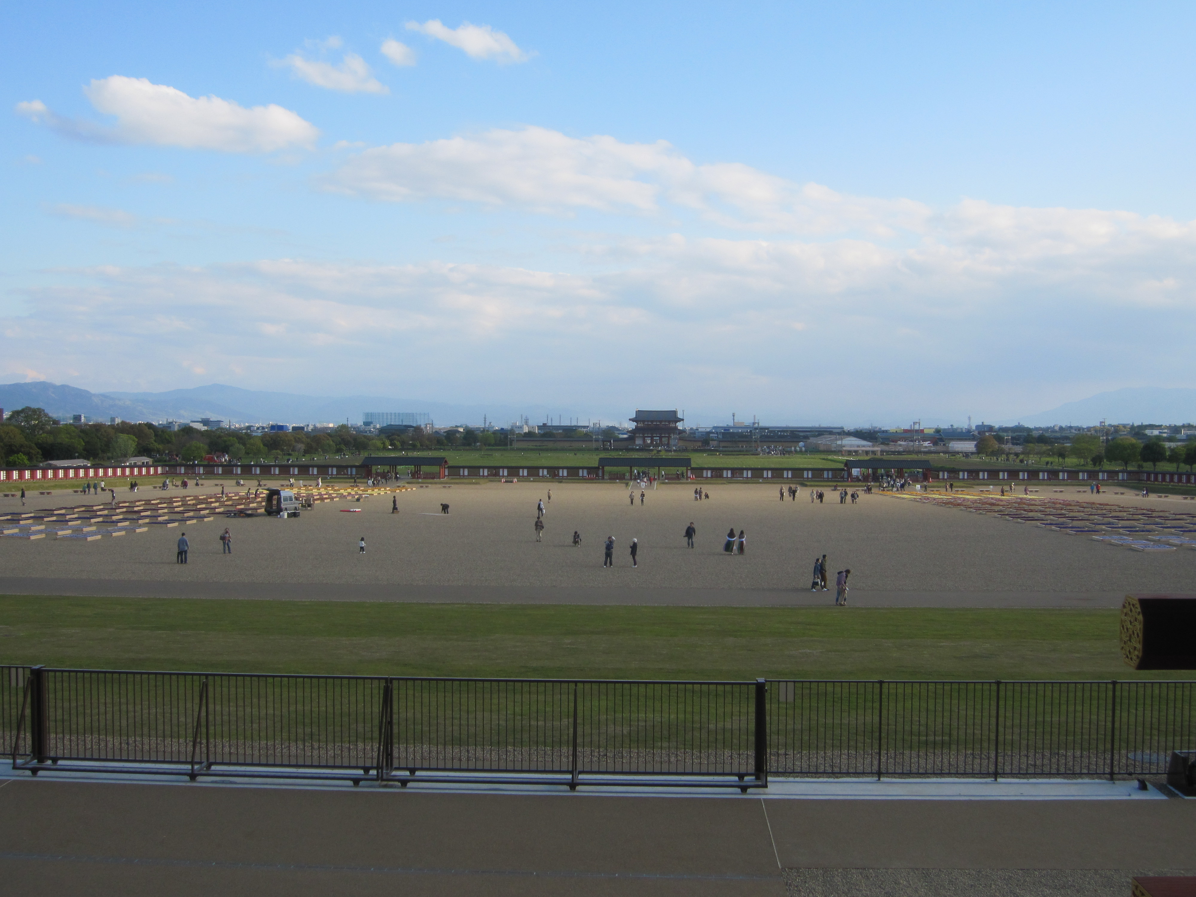 Heijō Palace